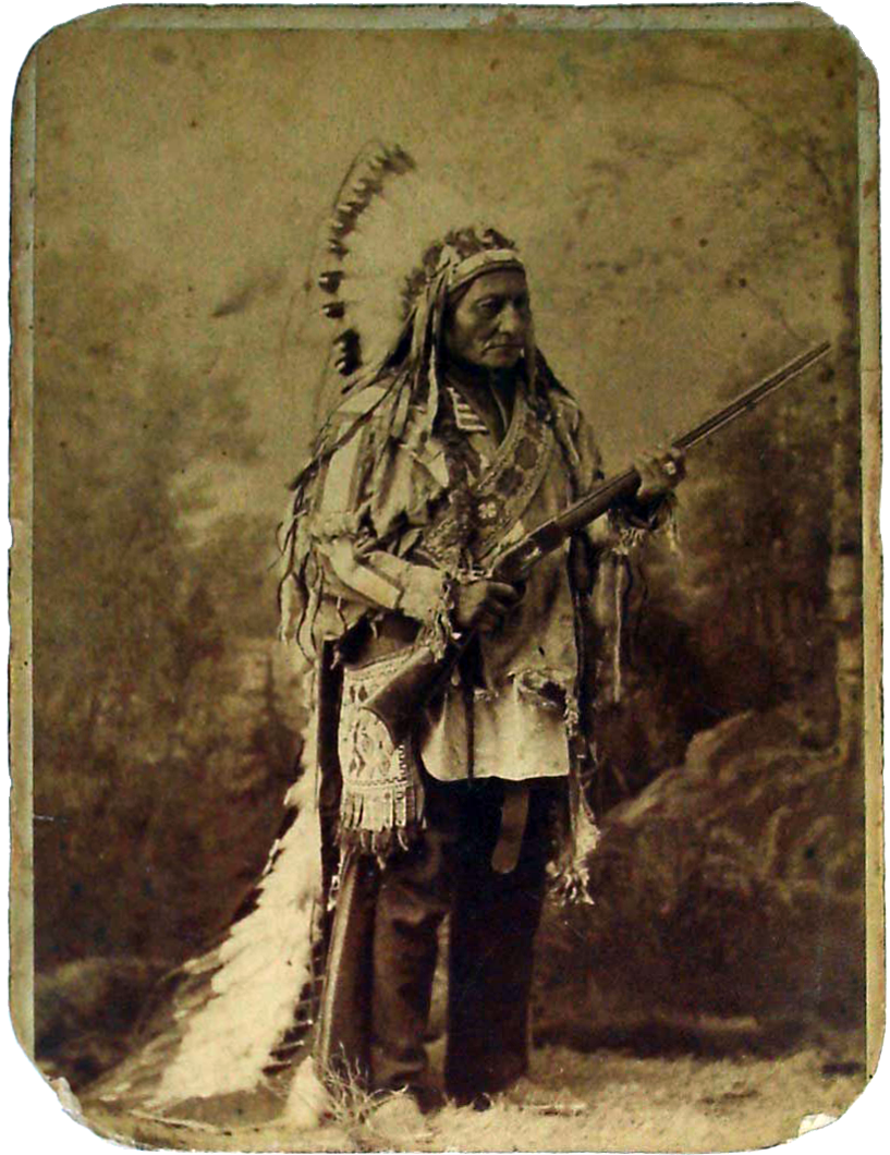 Sitting Bull holding a Winchester lever-action carbine probably identical to the rifle that he surrendered, taken during his four-month stint on Buffalo Bill’s show.